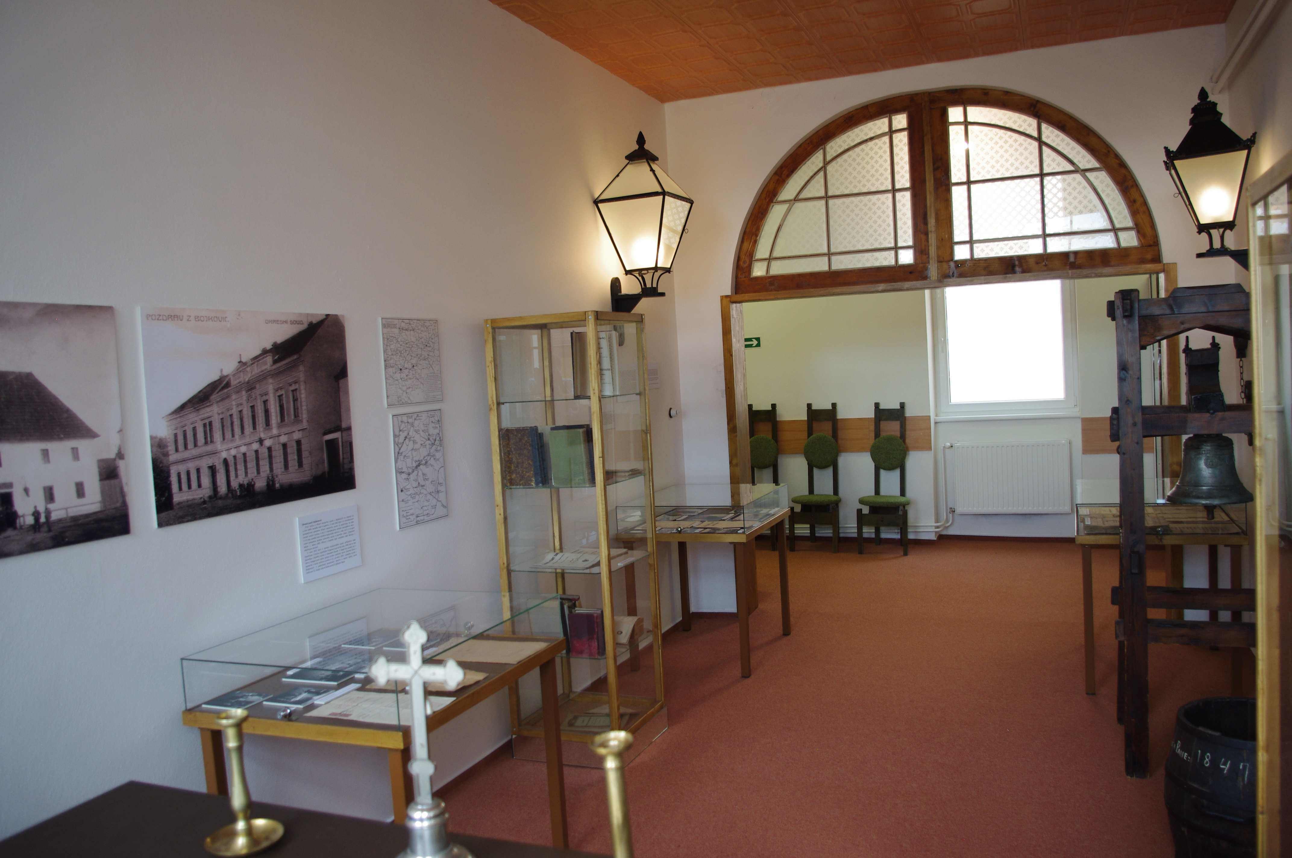 Expozice soudnictví v Muzeu Bojkovska